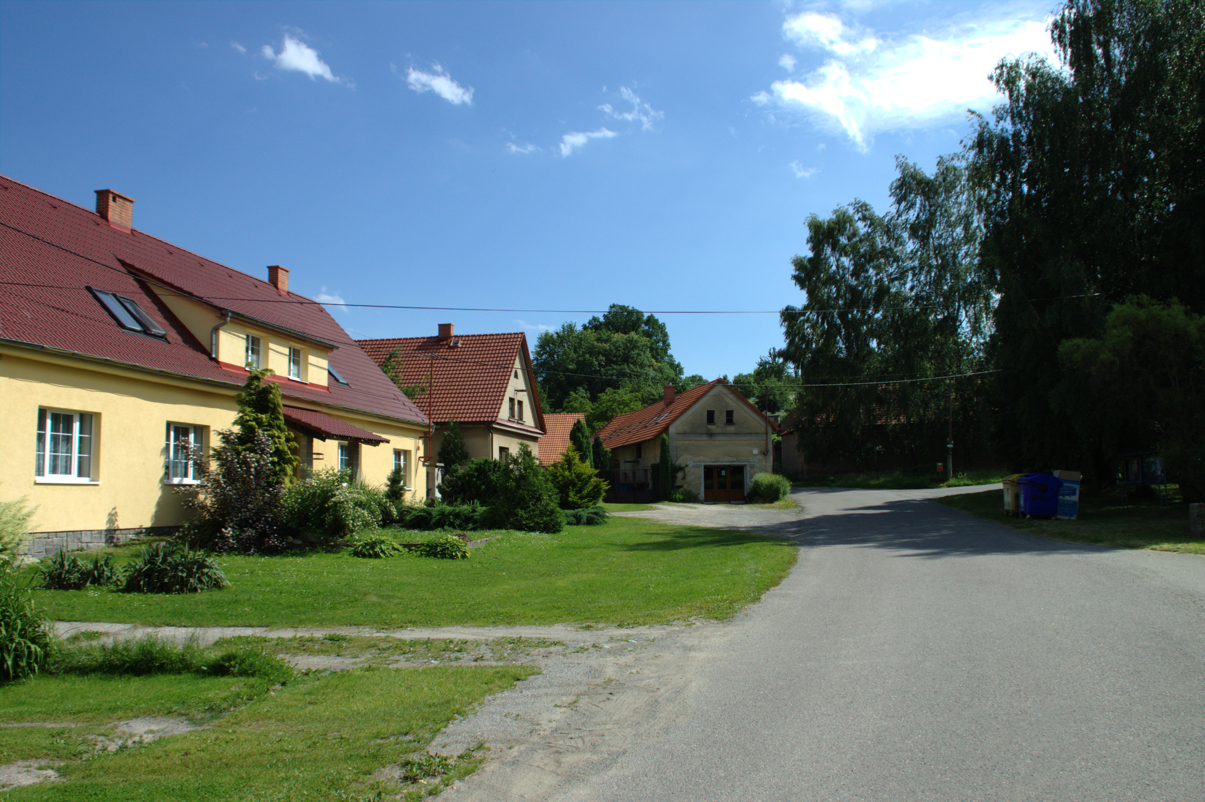 Central part of the village of Semovice, part of the town of Bystřice, Central Bohemian Region, CZ